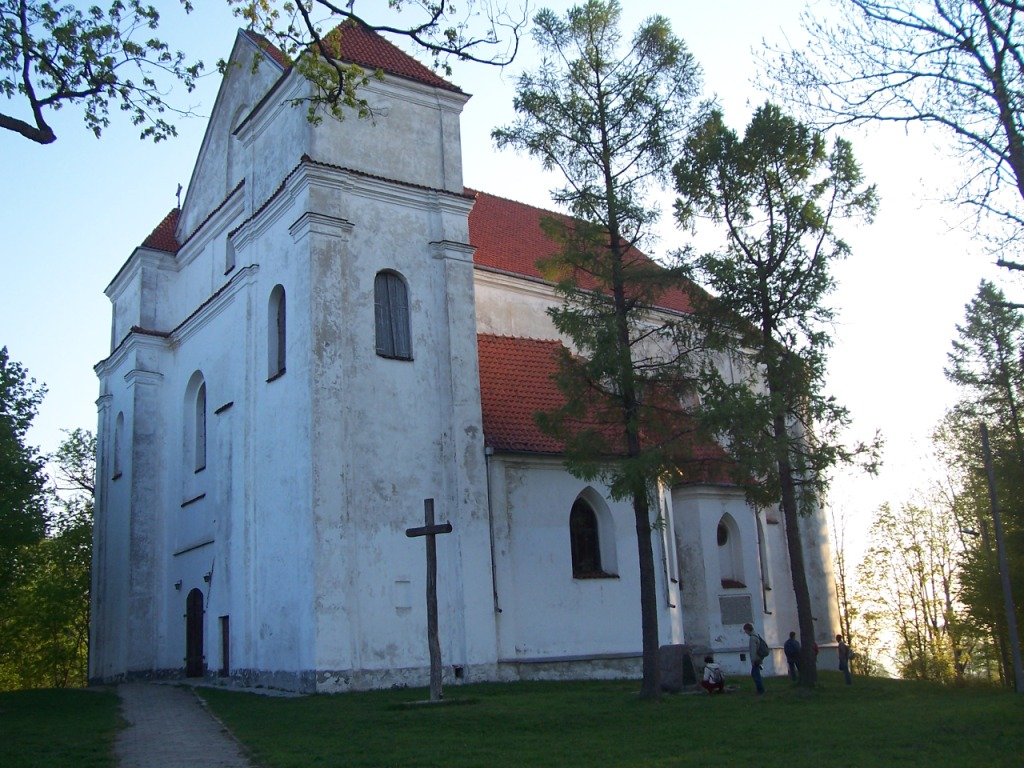 Navahradak Catolic Church